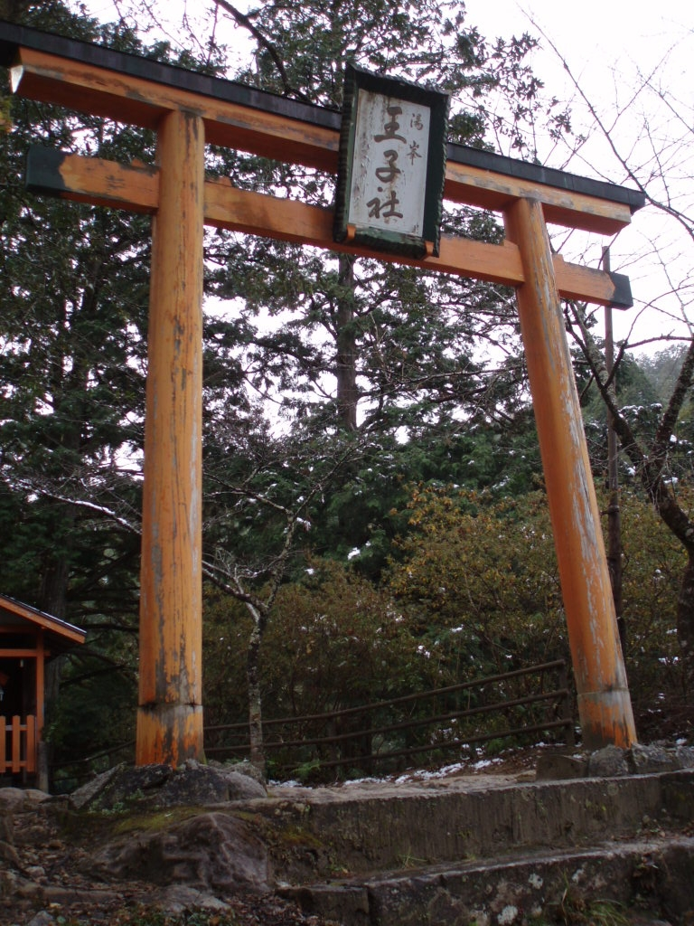 sacred arch, YUNOMINE-oji shrine